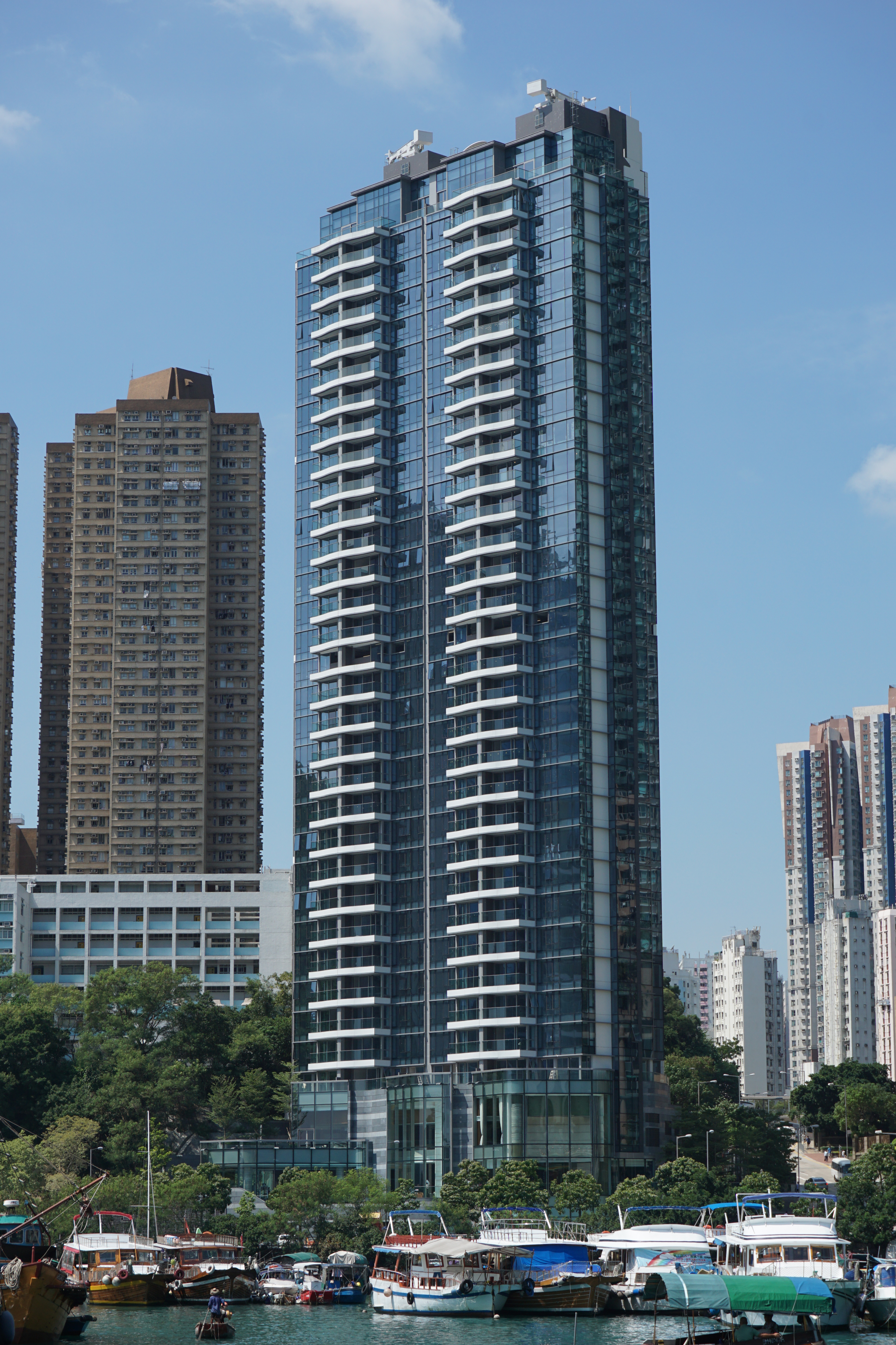 Marina South in Ap Lei Chau, Hong Kong.